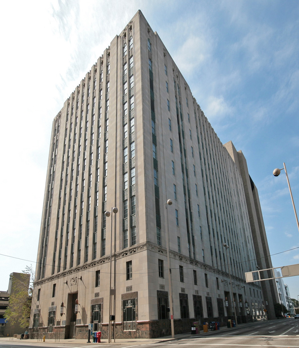 Cincinnati and Suburban Telephone Company Building in Cincinnati, OH. Photo by Greg Hume